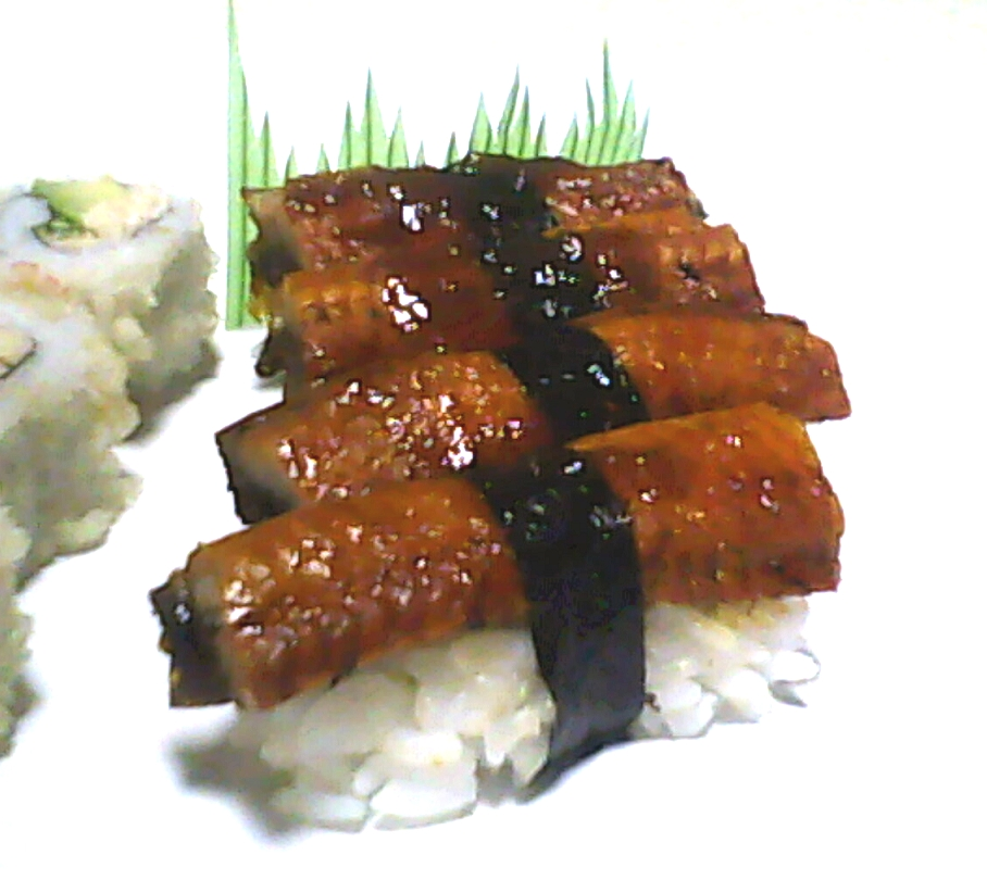 Unagi-sushi